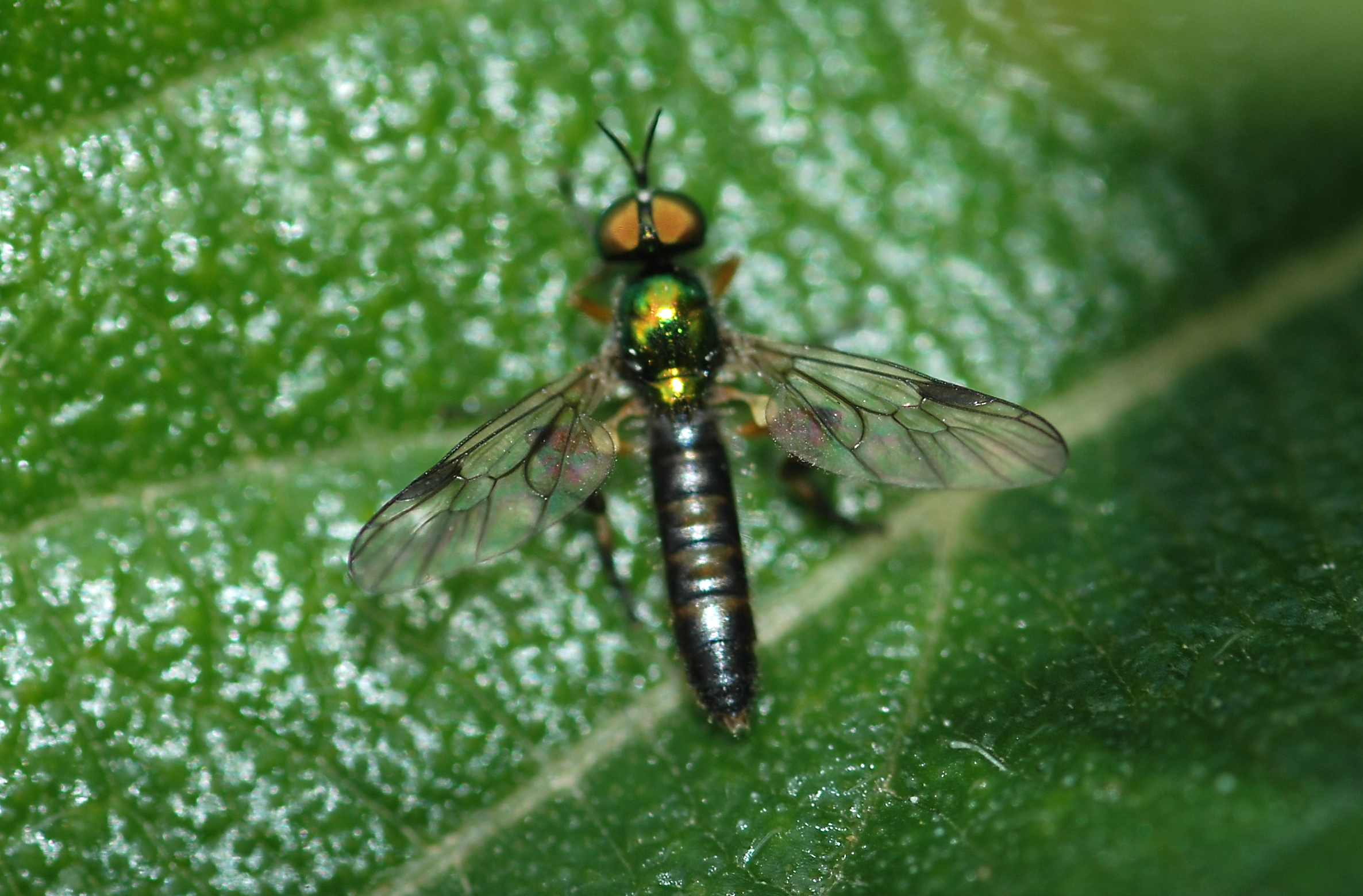 A soldier fly of the Stratiomyidae family - Chrisops sp.